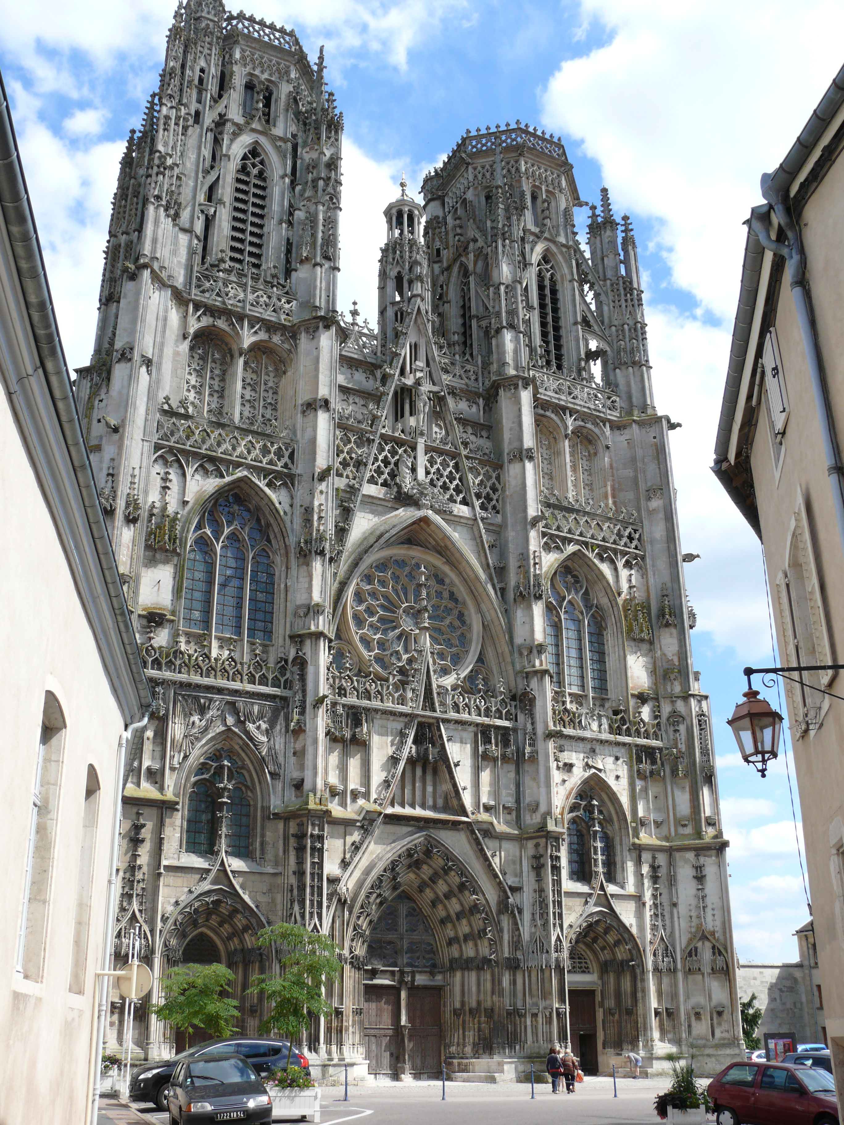 St Etienne cathedral in Toul.